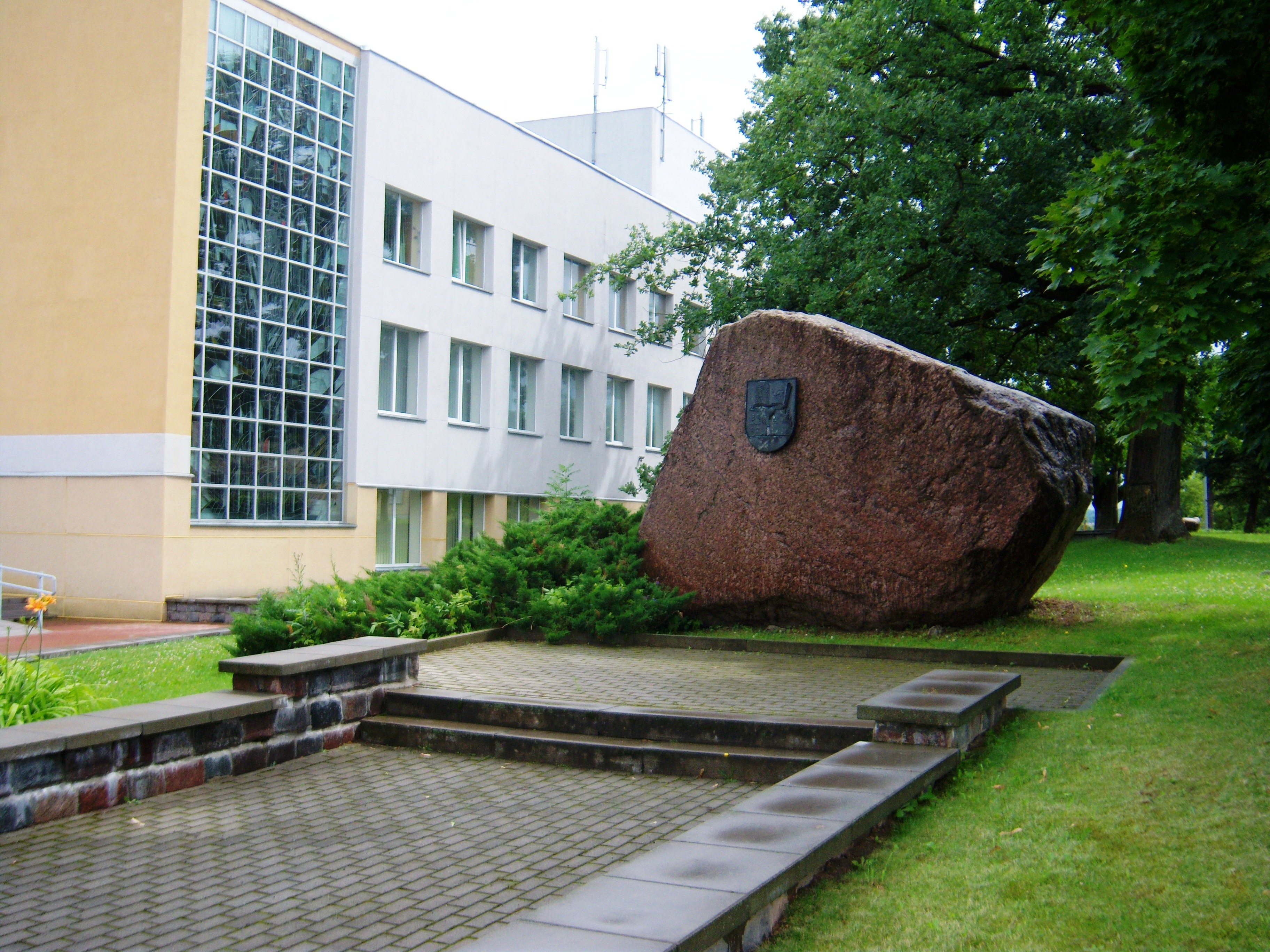 Dukstynos akmuo, boulder in Ukmergė, Lithuania